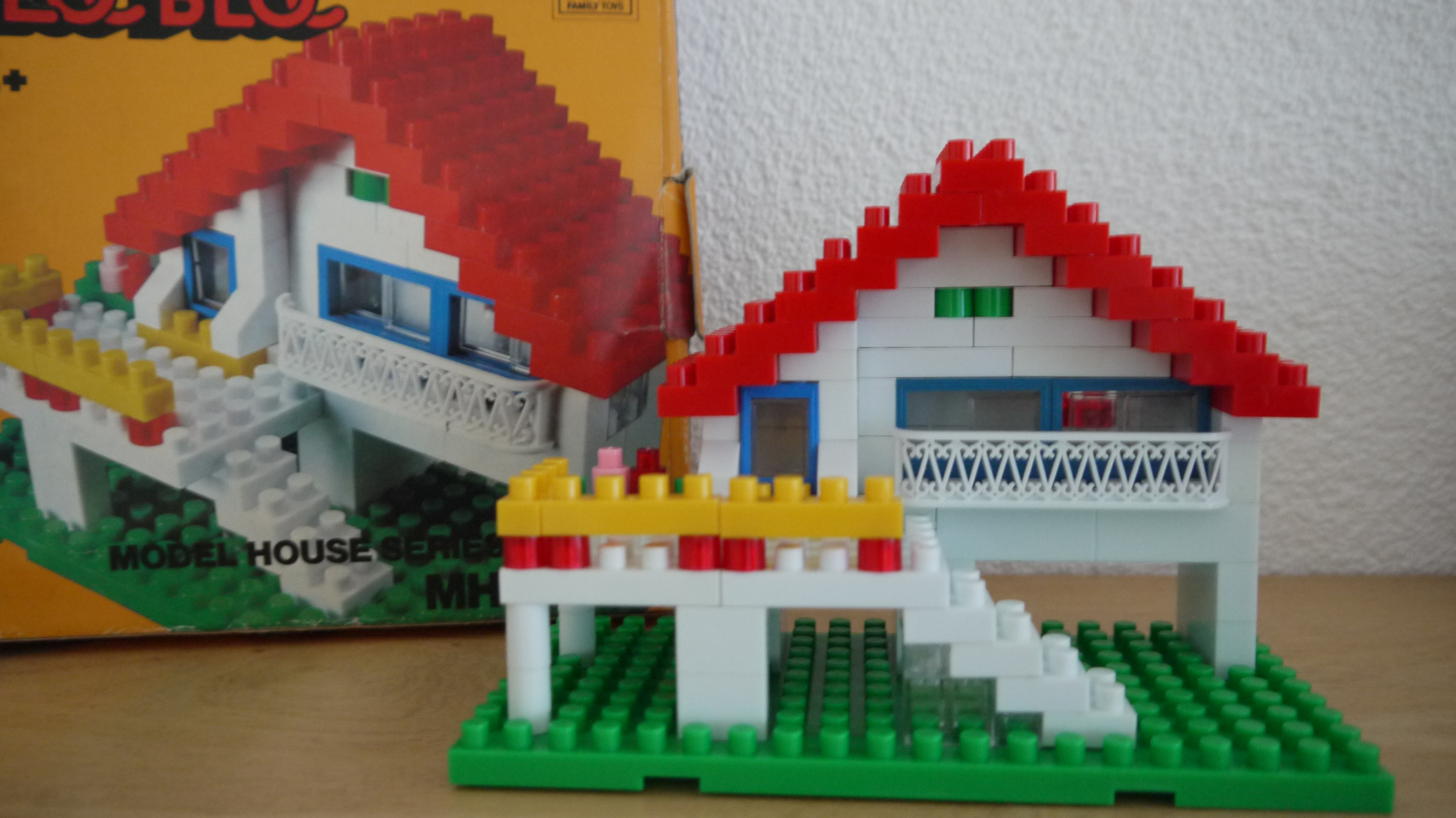 Loc Bloc model, architectural home